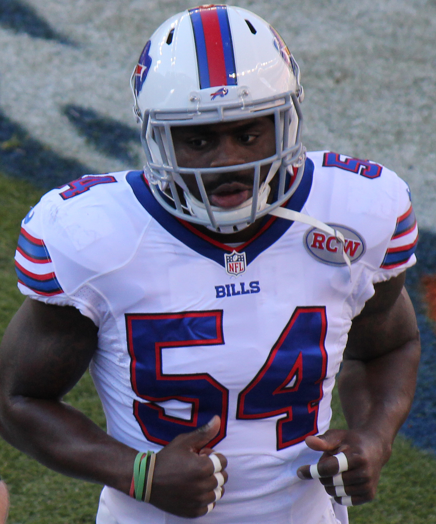 Larry Dean, a player on the National Football League.